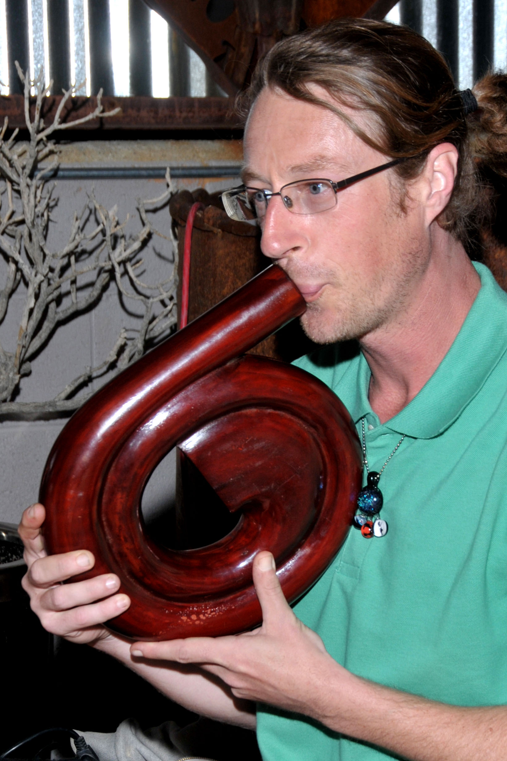 Travel or Reticulated Didjeridoo - Photo by Glenn Francis of